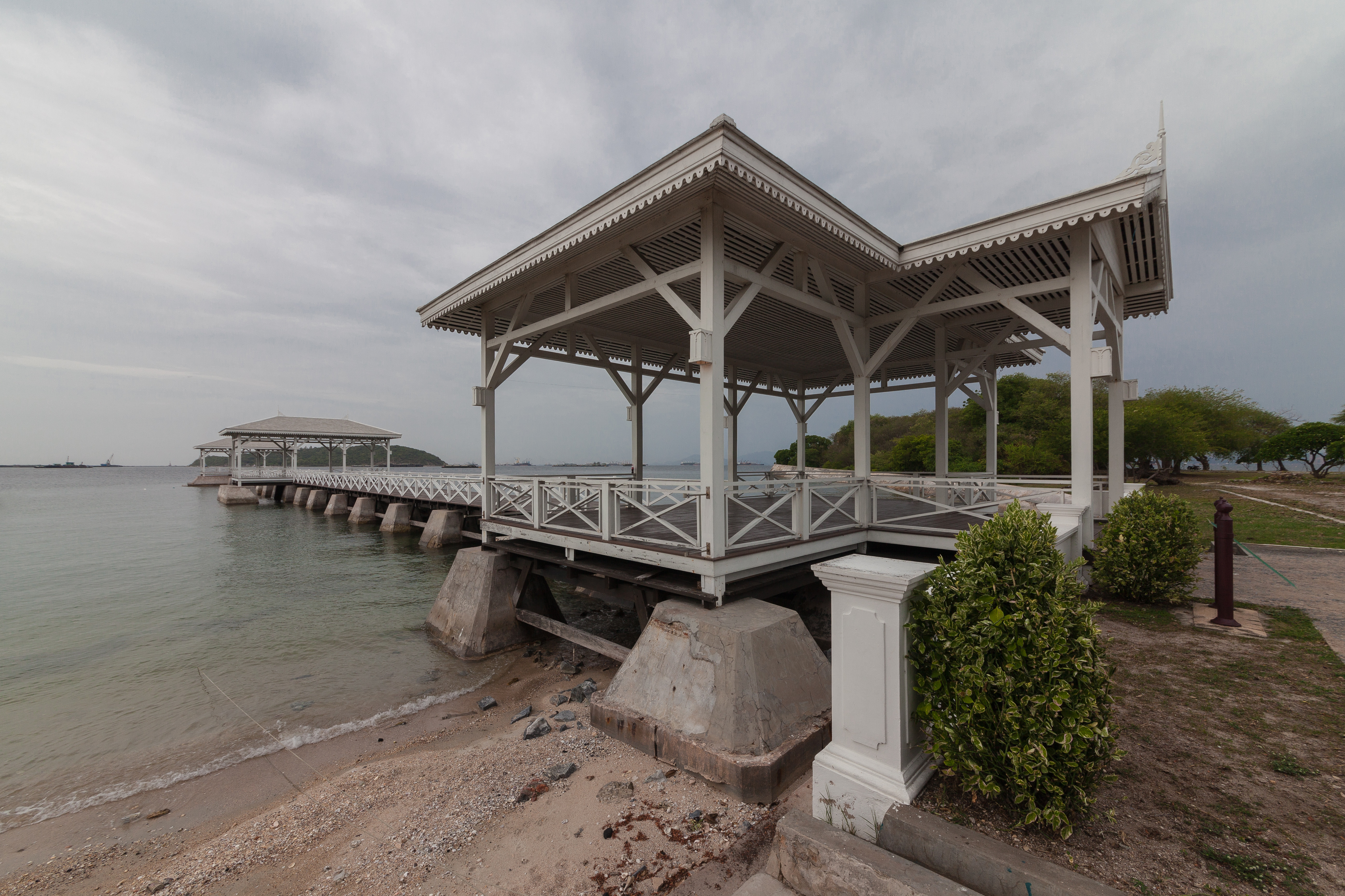 Asdang Bridge in Phra Chuthathut Palace, Sichang island, Chon Buri.